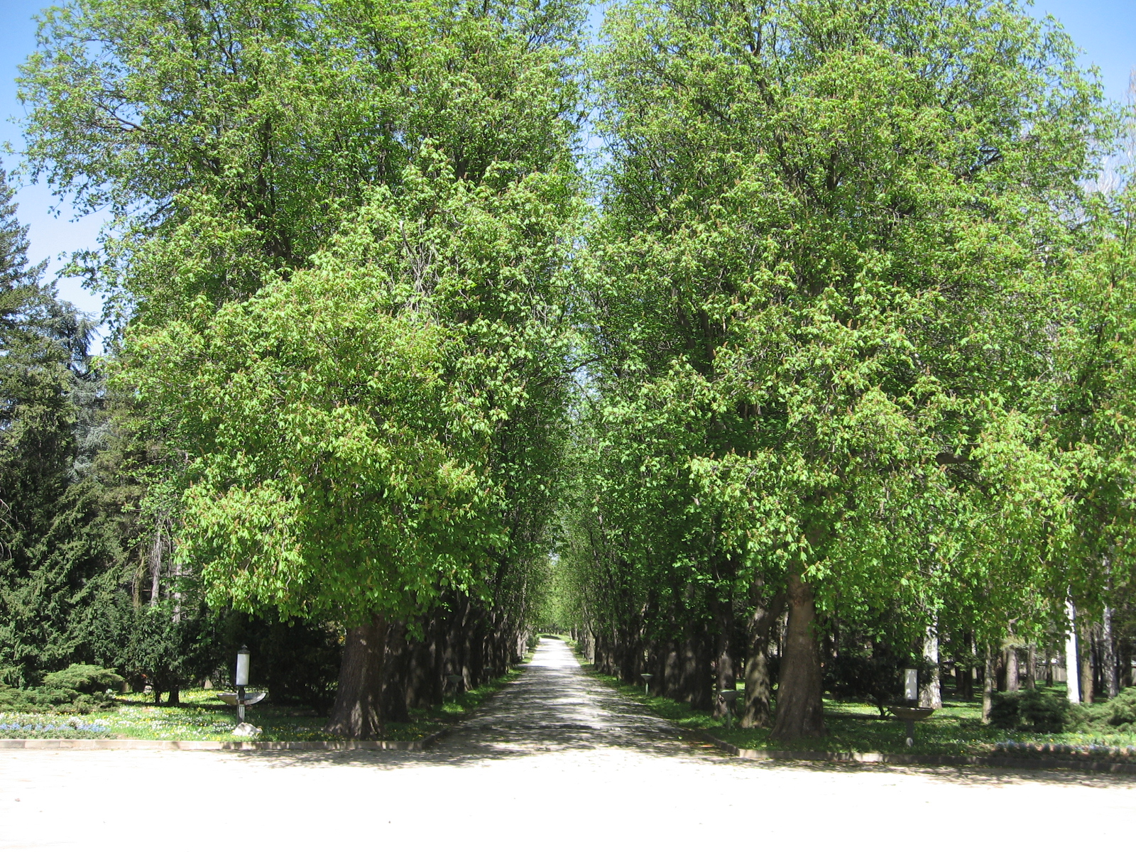 Park of Royal Compound, Belgrade